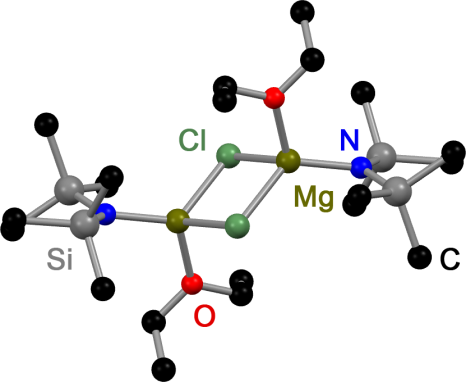 Solid state structure of HMDS Hauser Base